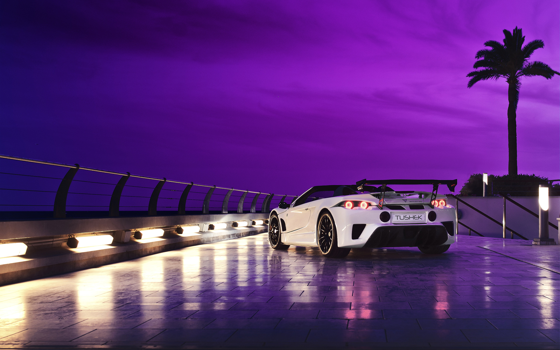 TS500